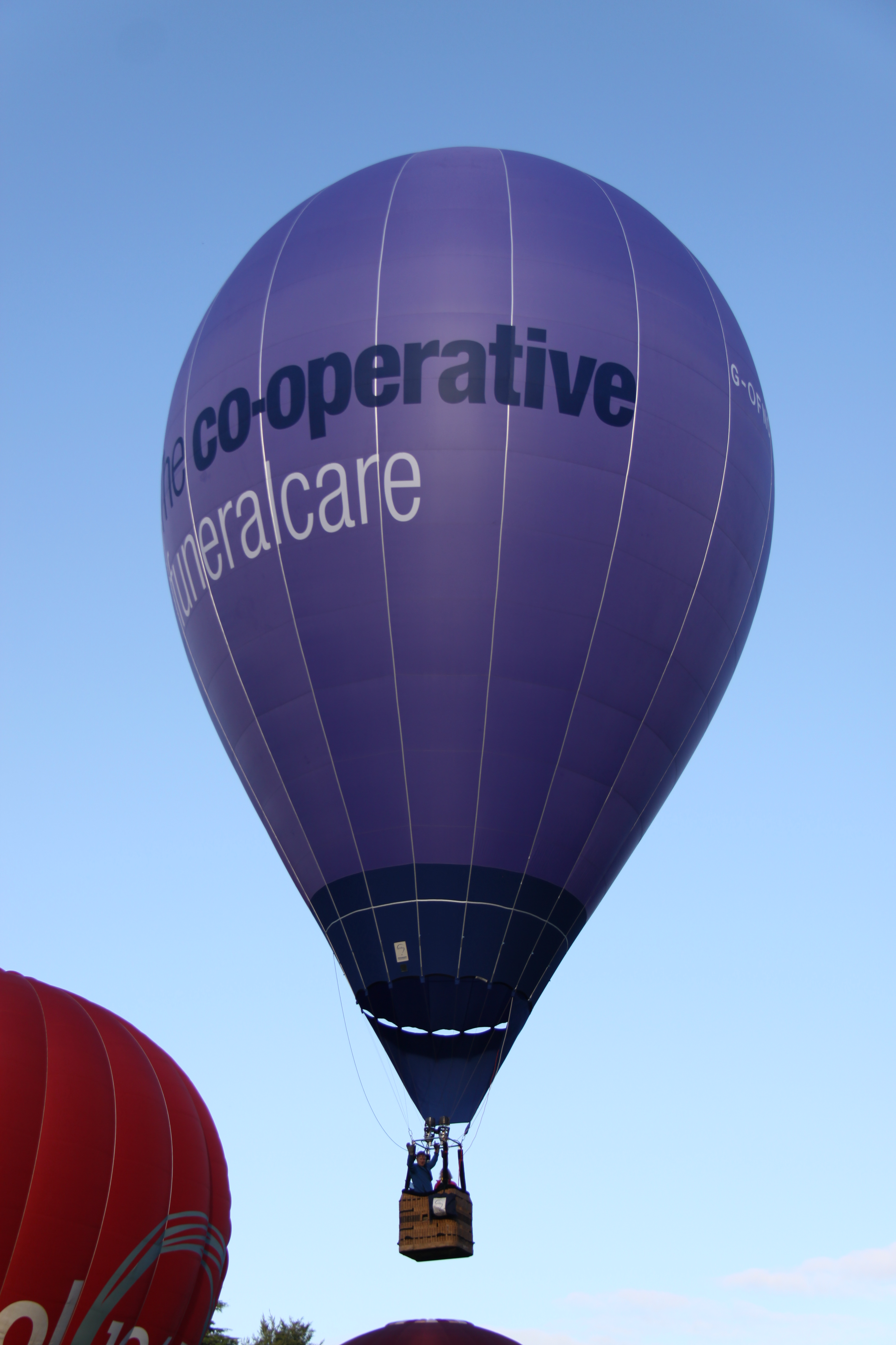 At Bristol International Balloon Fiesta Ashton Court